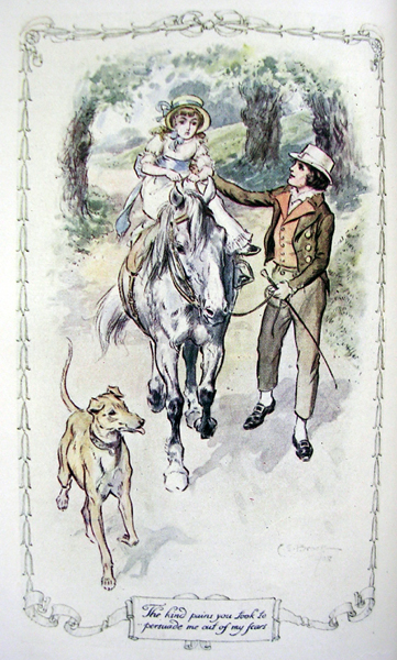 Illustration for ch 3 of Mansfield Park, published as part of the Series of English Idylls, by J.M Dent & Co. (London) and E.P. Dutton & Co. (New York).